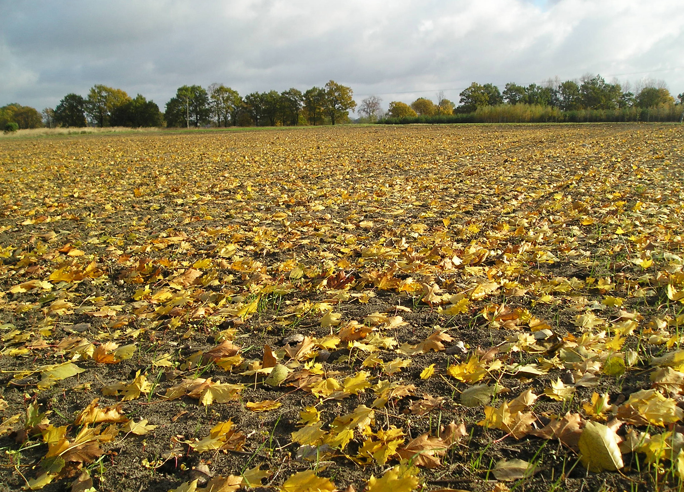 Foliar mulch